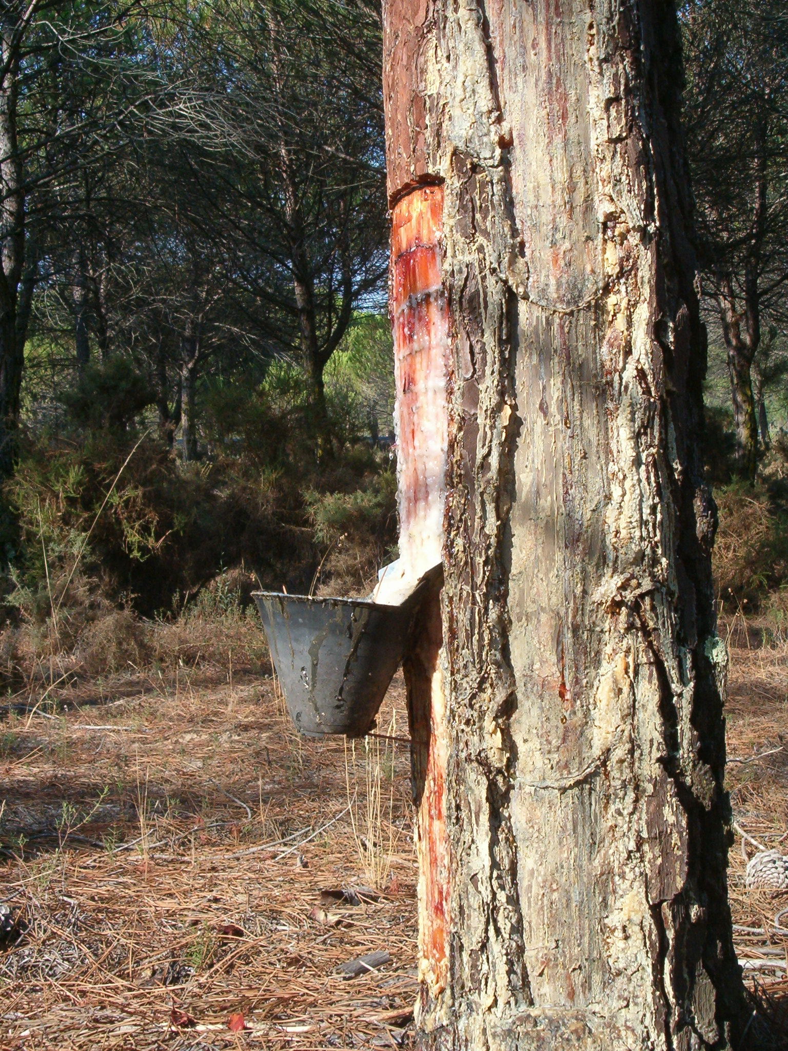 Gemmage of Pinus in Portugal